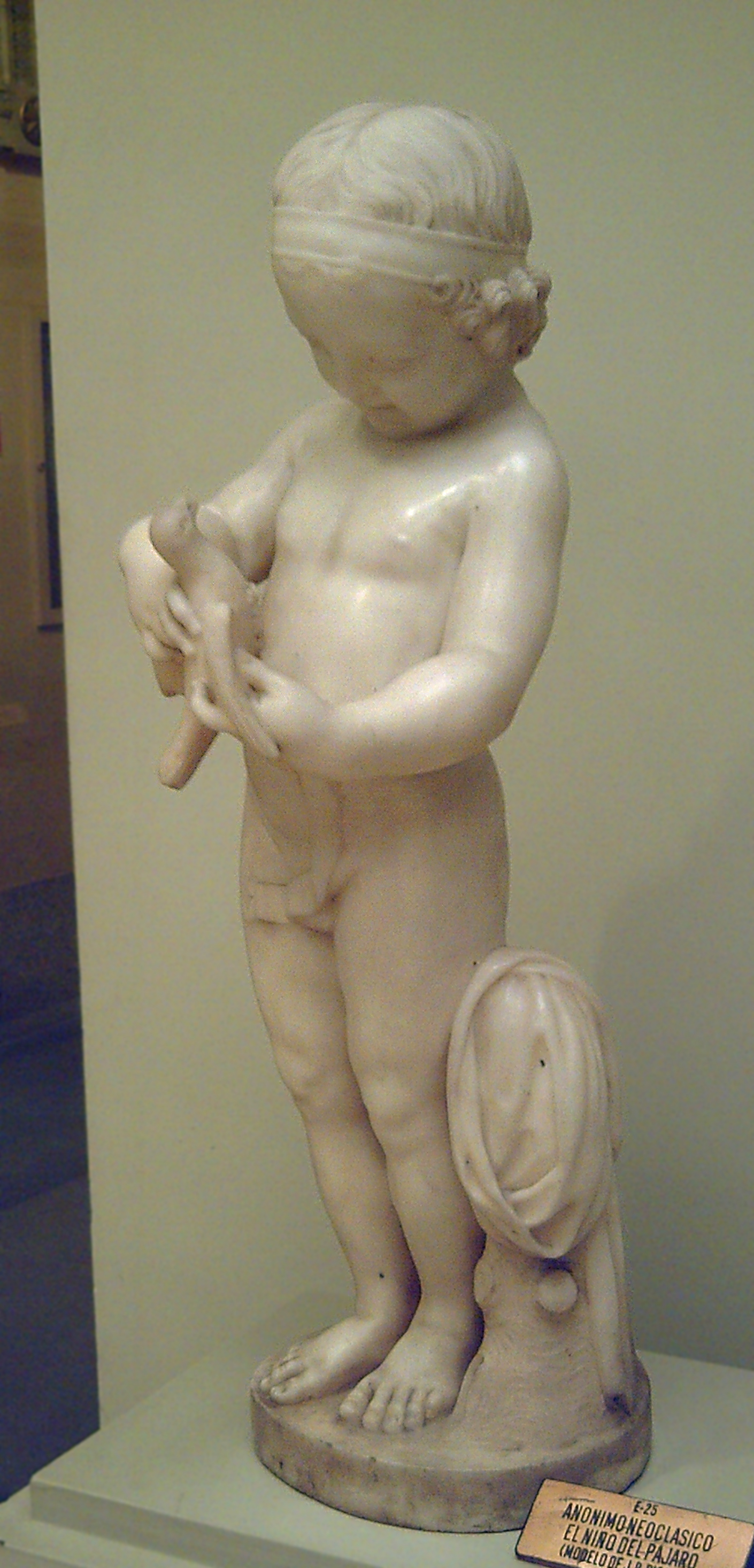 Based on a terracotta prototype by Charles-Antoine Bridan from 1784 on display at the Museum of Fine Arts of Chartres, which in turn is a copy of an ancient Roman sculpture at Villa Borghese (Rome, Italy). It forms a pair with Little Girl with a Bird's Nest.